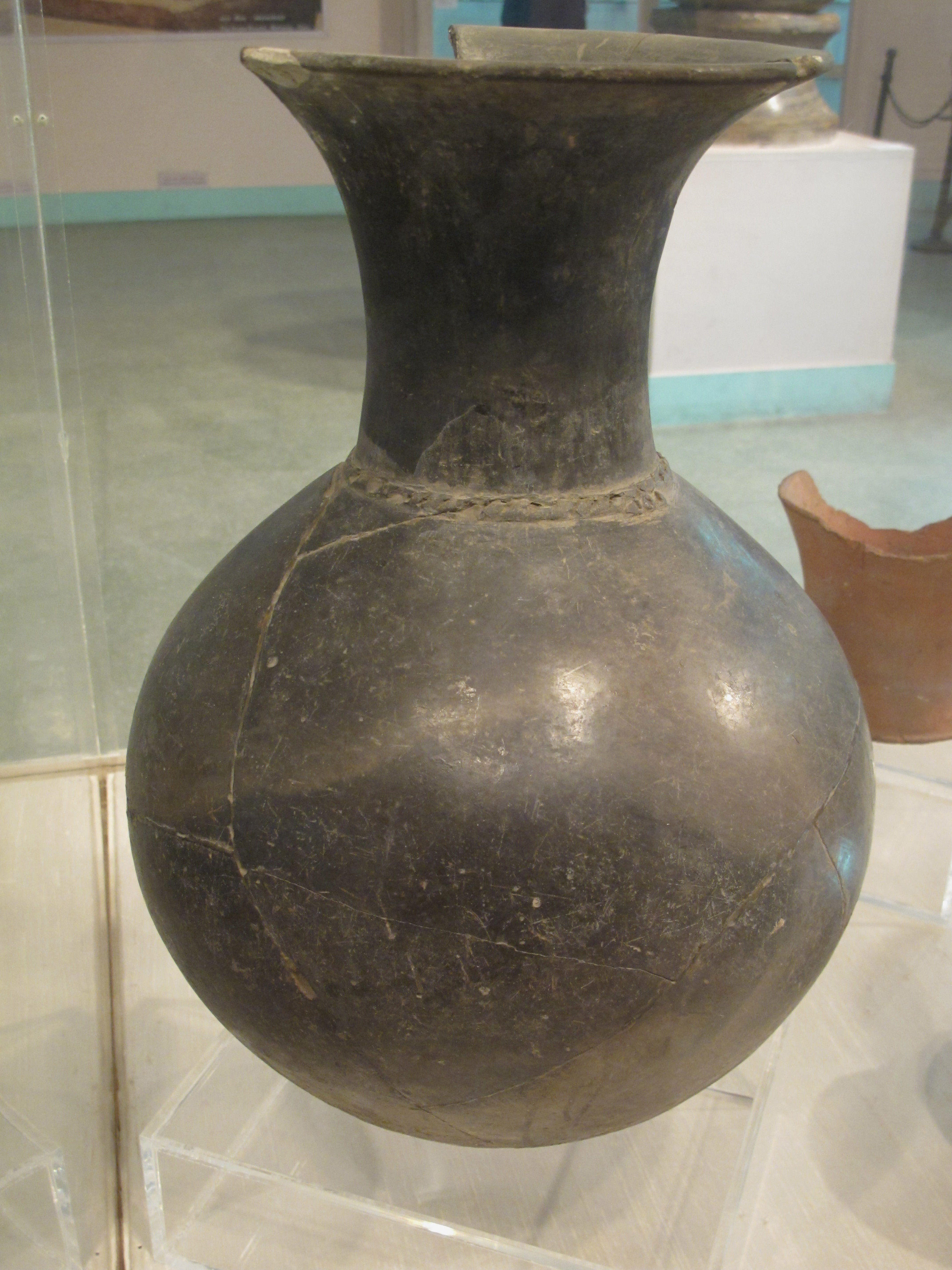 Black earthenware from Burzahom, Kashmir. Neolithic period, 2700 BC. National Museum, New Delhi